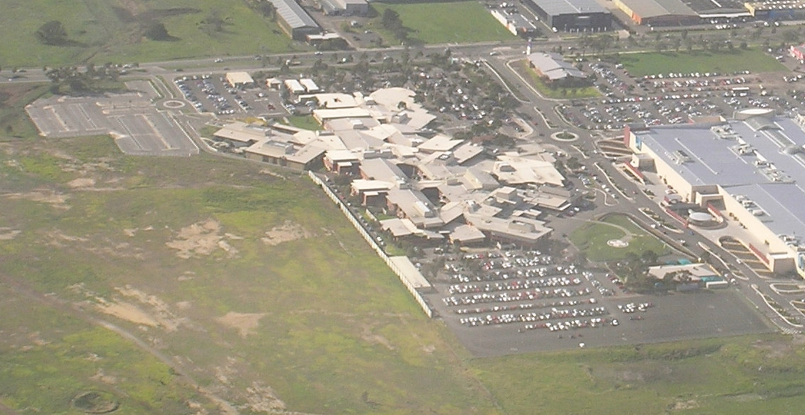 The Northern Hospital Epping Victoria from the south aerial photo